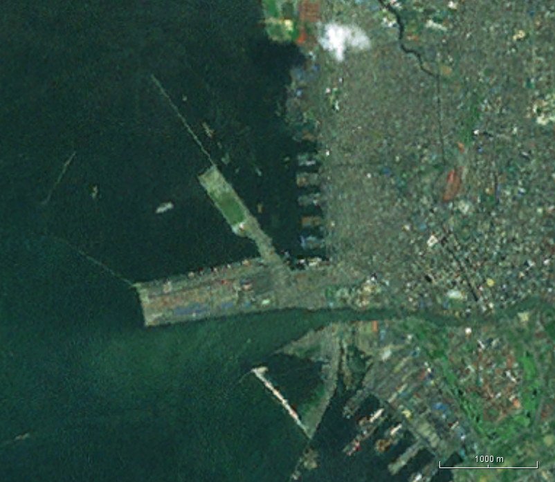 Landsat view of the Manila International Container Terminal, cropped from the NASA Worldwind program by the uploader.